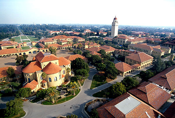 Stanford University Arial View. pd-self No rights reserved